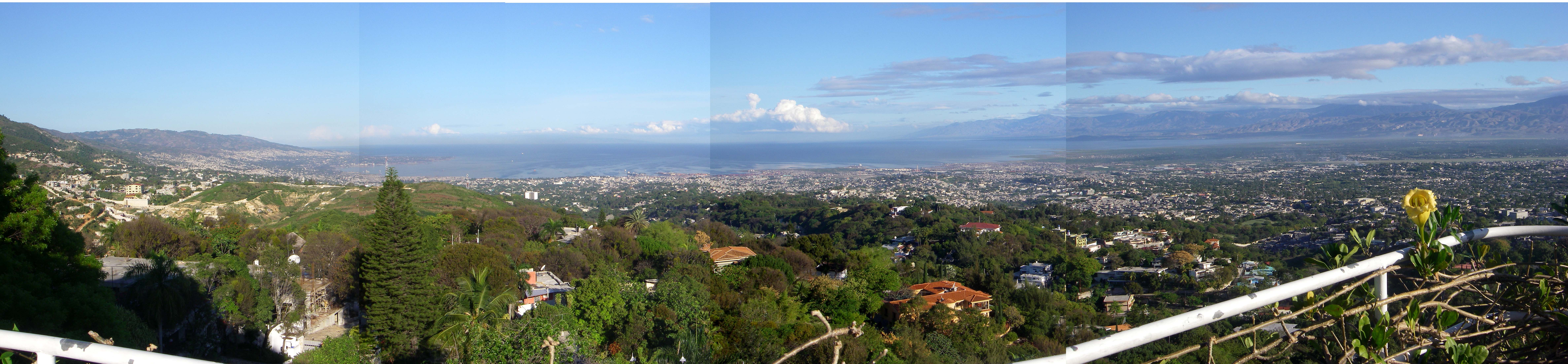 View of Port-au-Prince from Hotel Montana, which was destroyed in the 2010 Haiti earthquake.